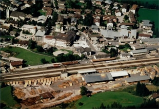 First Sawmill in St. Johann in Tirol